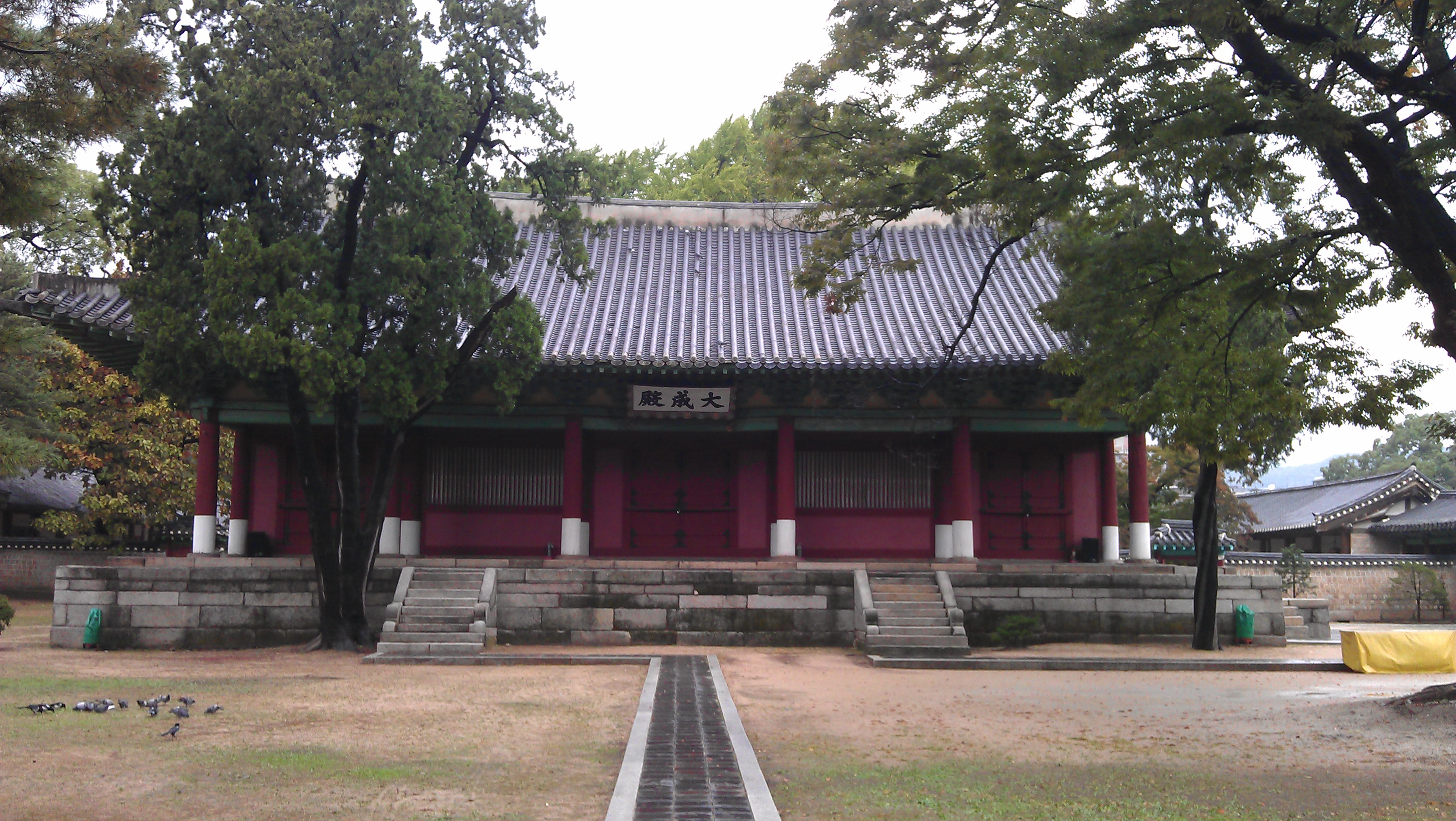 The Shrine of Confucius at Sungkyunkwan in Seoul.